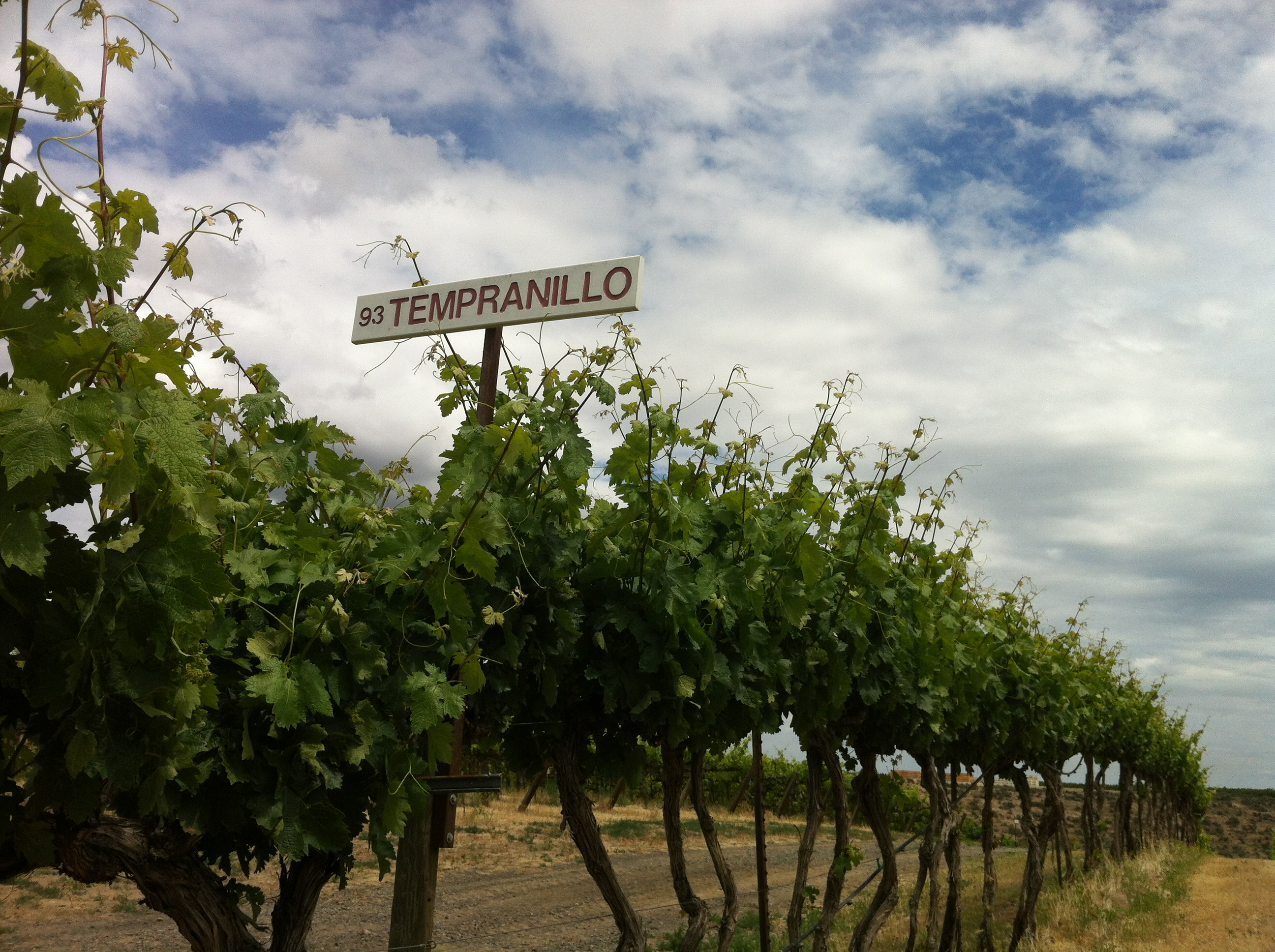 The first plantings of Tempranillo in Washington state at Red Willow Vineyard in the Yakima Valley AVA